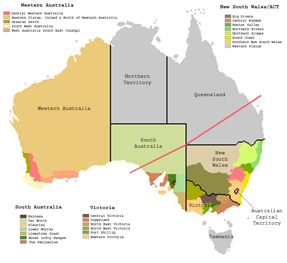 Australian wine zones, the area south east of the pink line is South Eastern Australia.